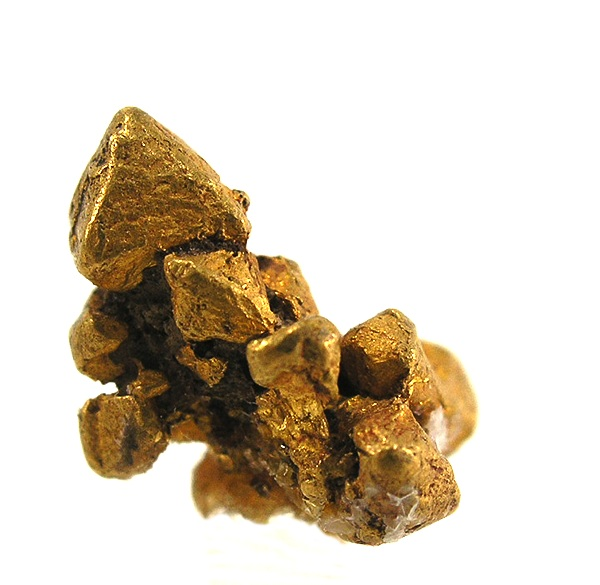 Gold Locality: Colorado Mine (Colorado Quartz Mine), Colorado, Whitlock District, Bagby-Mariposa-Mount Bullion-Whitlock District, Mariposa County, California, USA (Locality at ) Size: thumbnail, 1 x 0.9 x 0.7 cm GOLD A sharp pagoda-like cluster culminating in a very 3-dimensional, unusually sharp, perfect octohedral gold crystal (4mm on edge)! This specimen was formerly in the isometric thumbnails competition case of my mentor, Carlton Davis of Columbus , Ohio.